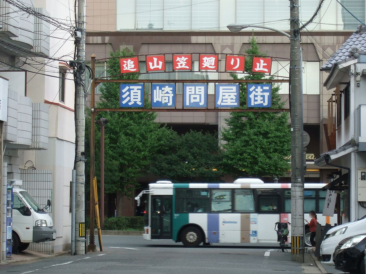 Hakata Gion Yamakasa Mawaridome (goal) , Hakata Ward, Fukuoka City, Fukuoka, Japan.